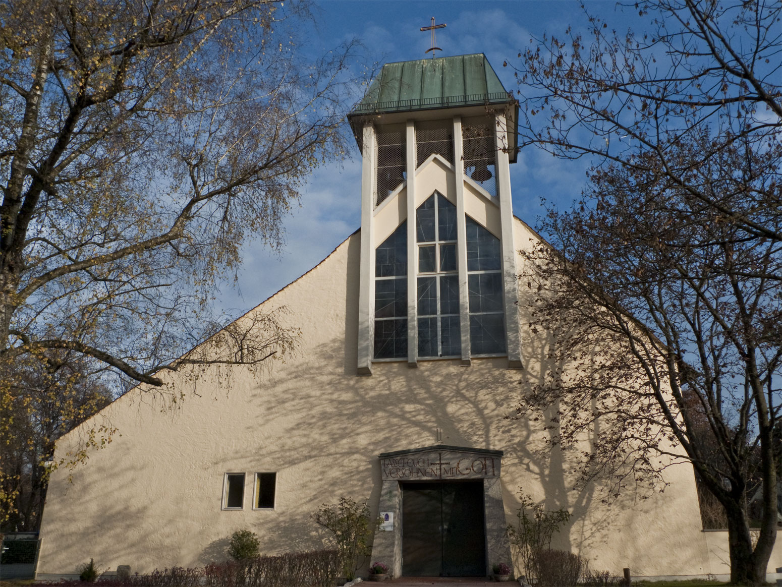 Versöhnungskirche, München